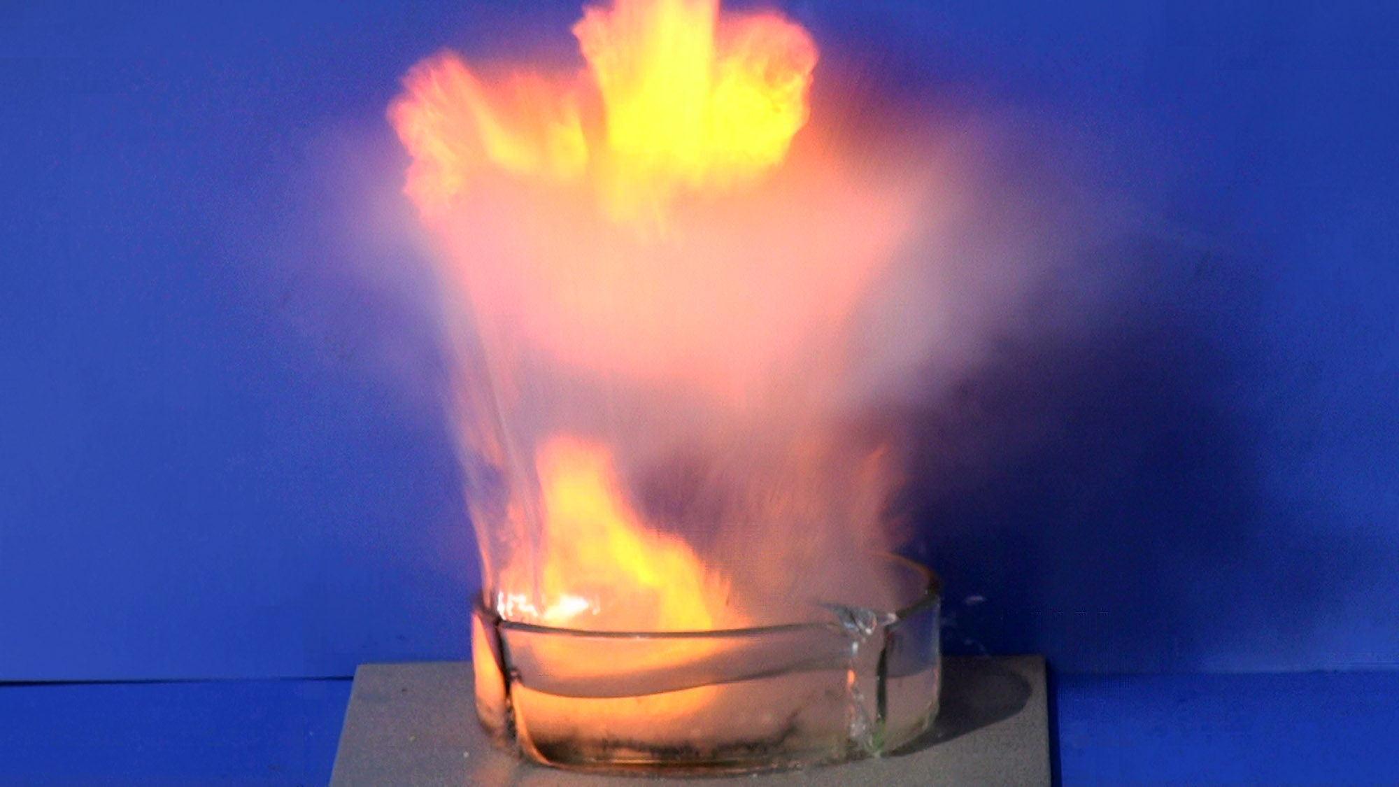 Reaction of sodium and water breaks the glass vessel